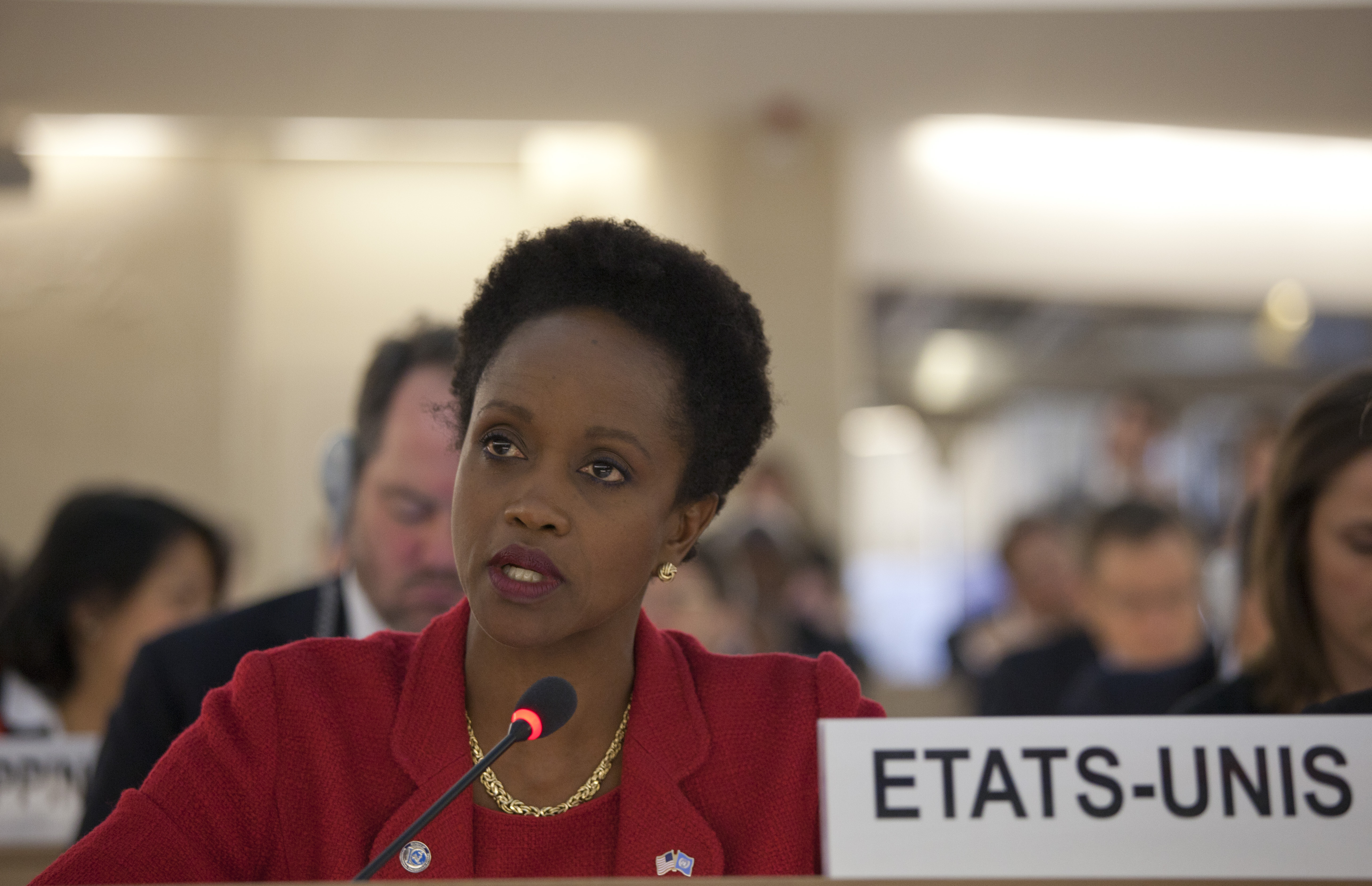 Esther Brimmer, U.S. Assistant Secretary of State for International Organization Affairs, addressed the Human Rights Council Urgent Debate on Syria February 28. The text of Secretary Brimmer’s statement can be found here: U.S. Mission Photo by Eric Bridiers